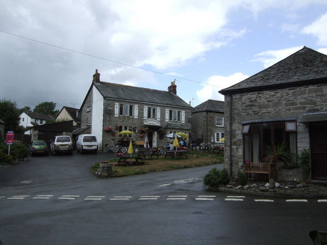 Blisland Inn. CAMRA feted pub. Amongst the many local beers on this occasion, M&B Brew IX looked rather incongruous and it certainly was not from Cape Hill!